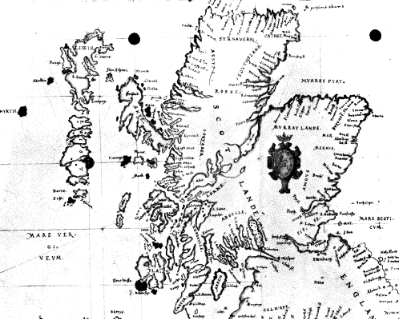 Detail from Carte of Scotlande